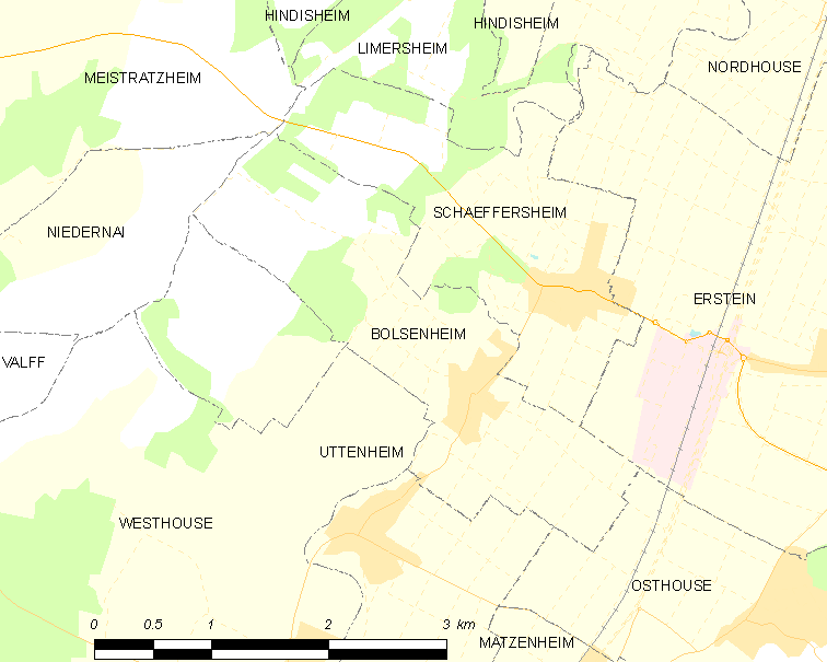 Map of French municipality